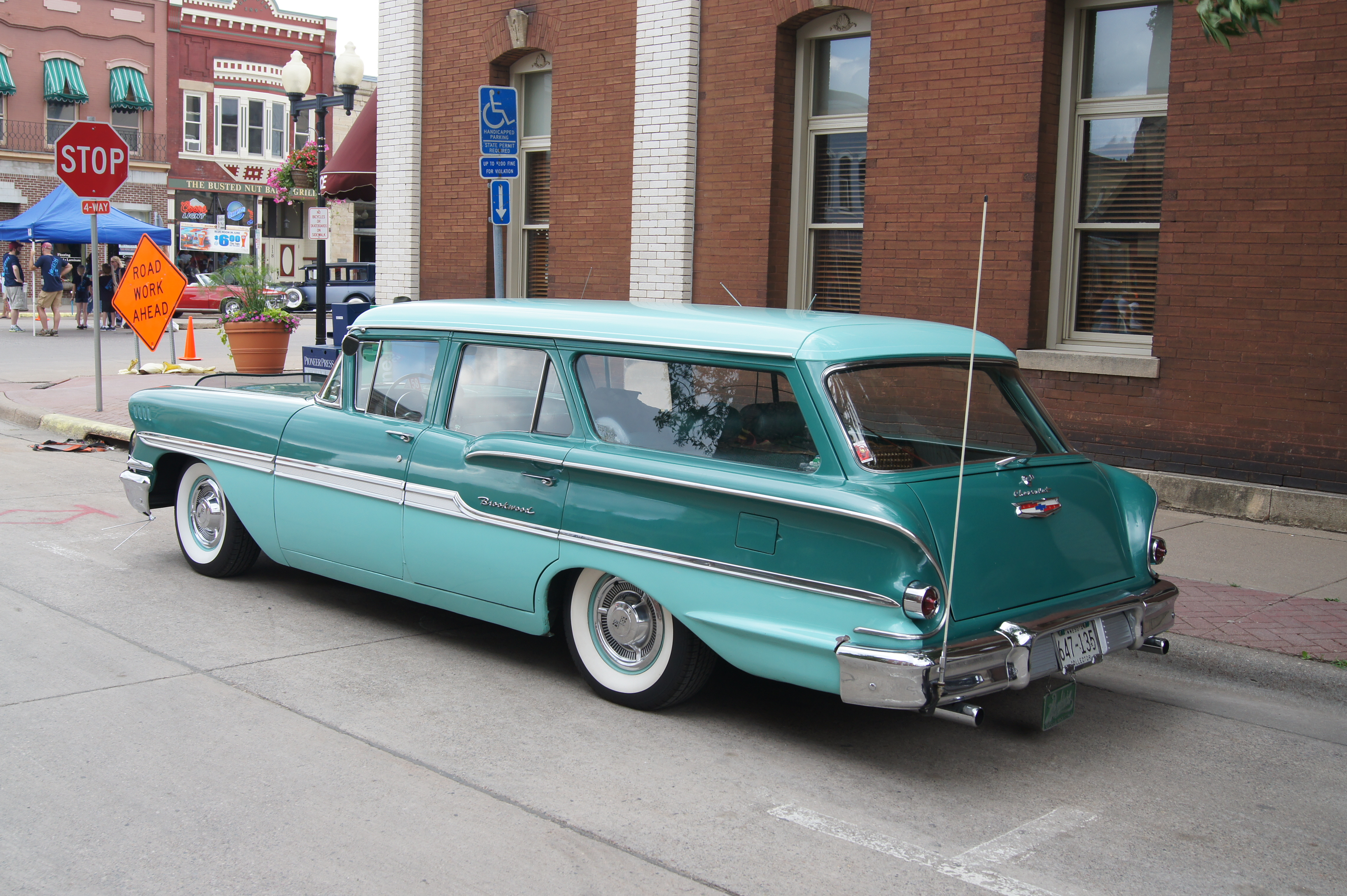 9th Annual Saturday Night Cruise-In June 28,2014 Hastings, Minnesota Participants said attendance was down quite a bit due to forecasts of rain and Thunderstorms. The meteorologists were right. An hour into the event, rain began to fall. For More of My Car Pictures click on the link below